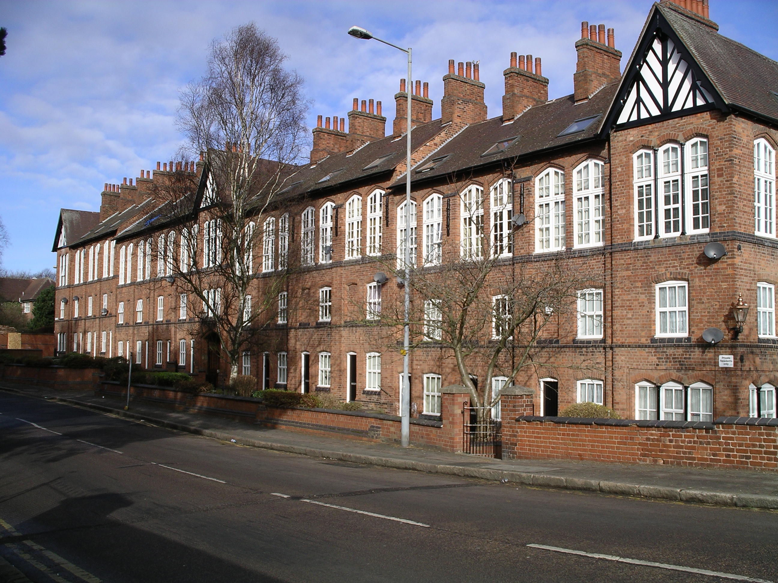 Cash's cottages, Cash's Lane, Coventry, England.